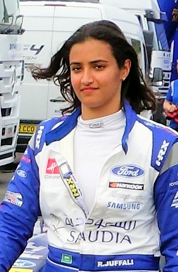 Double R Racing Reema Juffali 18